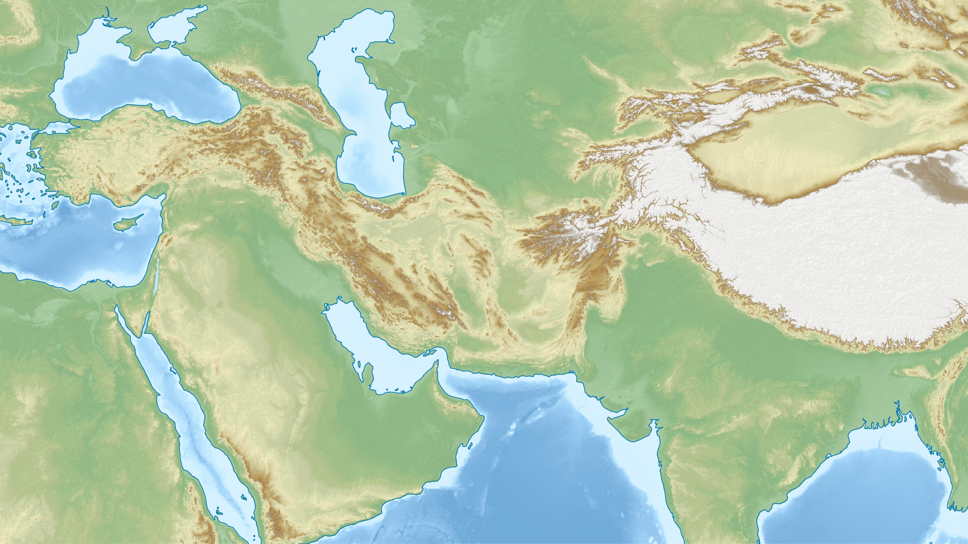 Topographic map of the Middle East centred on the Iranian Plateau.